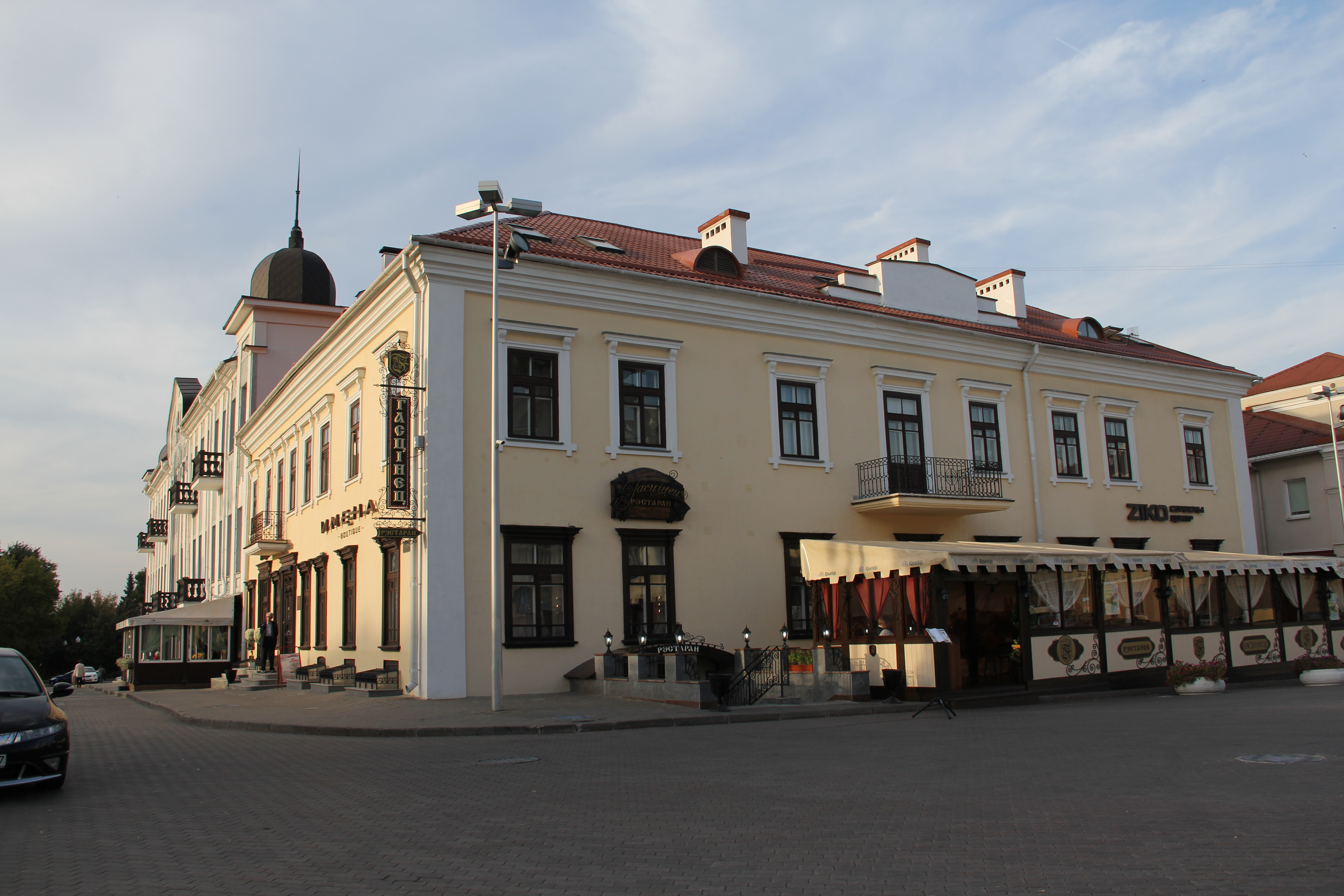 Беларуская (тарашкевіца): Былы гасьціны двор. г. Менск This is a photo of Belarusian heritage monument. Reference number: 712Г000234 ( WLM)